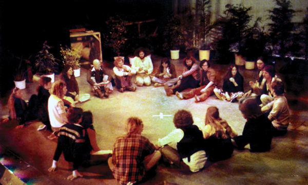 These photoes were taken by the official Nambassa photographer at the 1978 Nambassa Winter Show in New Zealand. Photographer Paul Gilbert. Uploaded by Mombas 11:48, 4 May 2007 (UTC) 1/ All users of this image are required to attribute this work to "Nambassa Trust and Peter Terry" and the URL: " " is to accompany all use. 2/ Attribution. You must attribute the work in the manner specified by the author or licensor. 3/ For any reuse or distribution, you must make clear to others the license terms of this work. Statement by Nambassa Trust and Peter Terry